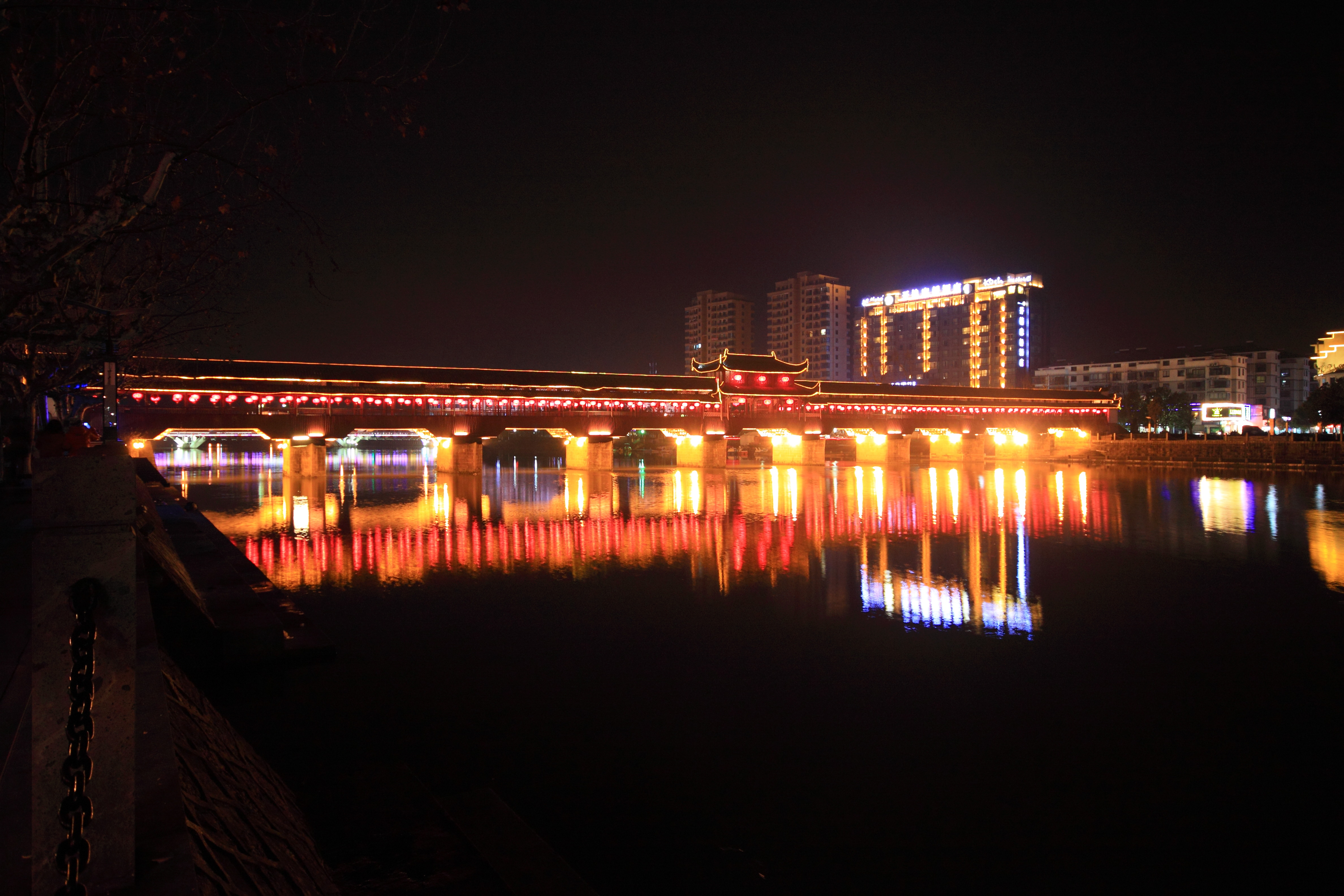 Shuxi Bridge, in Wuyi, Zhejiang, China.